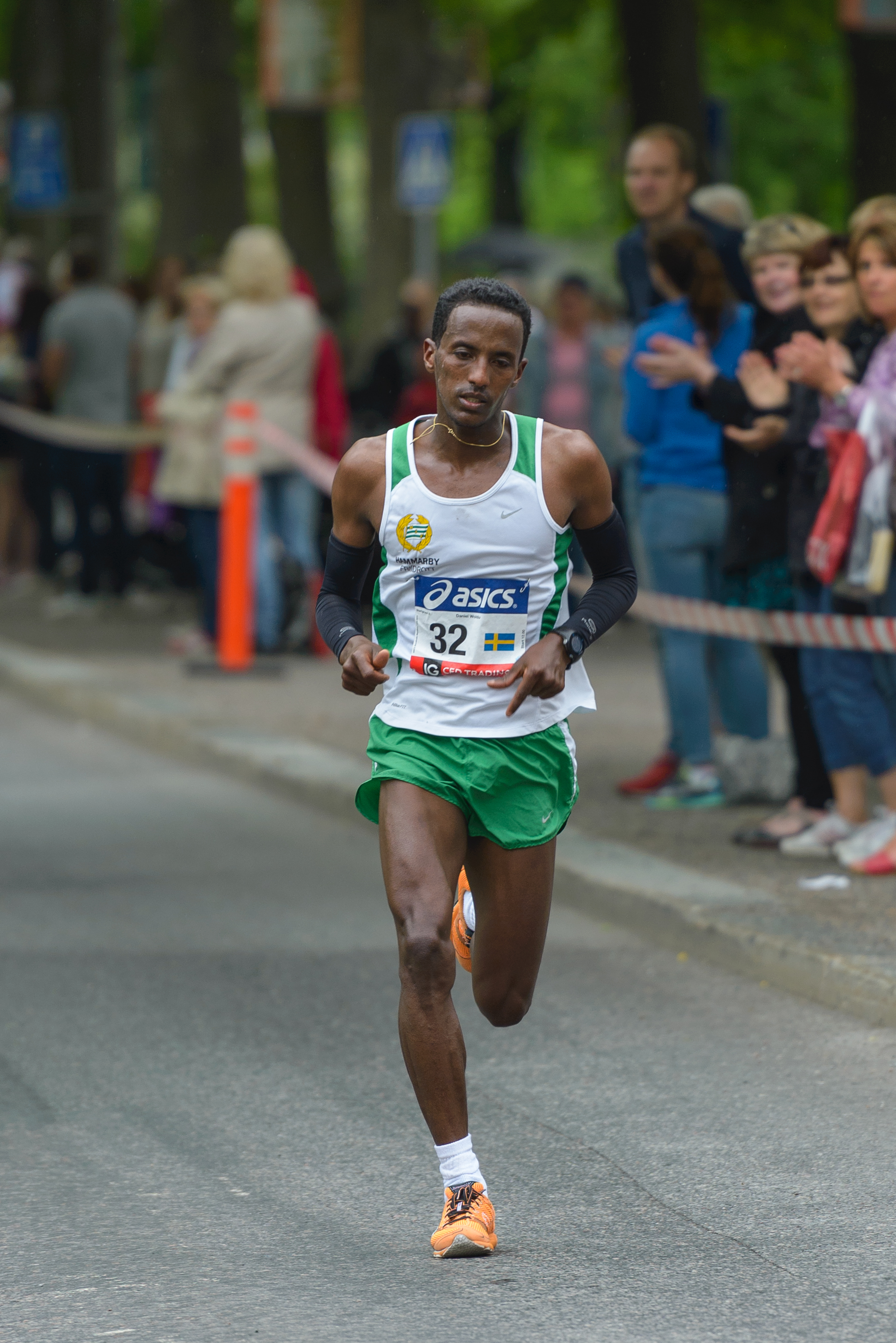 Daniel Woldu, Stockholm Marathon 2013